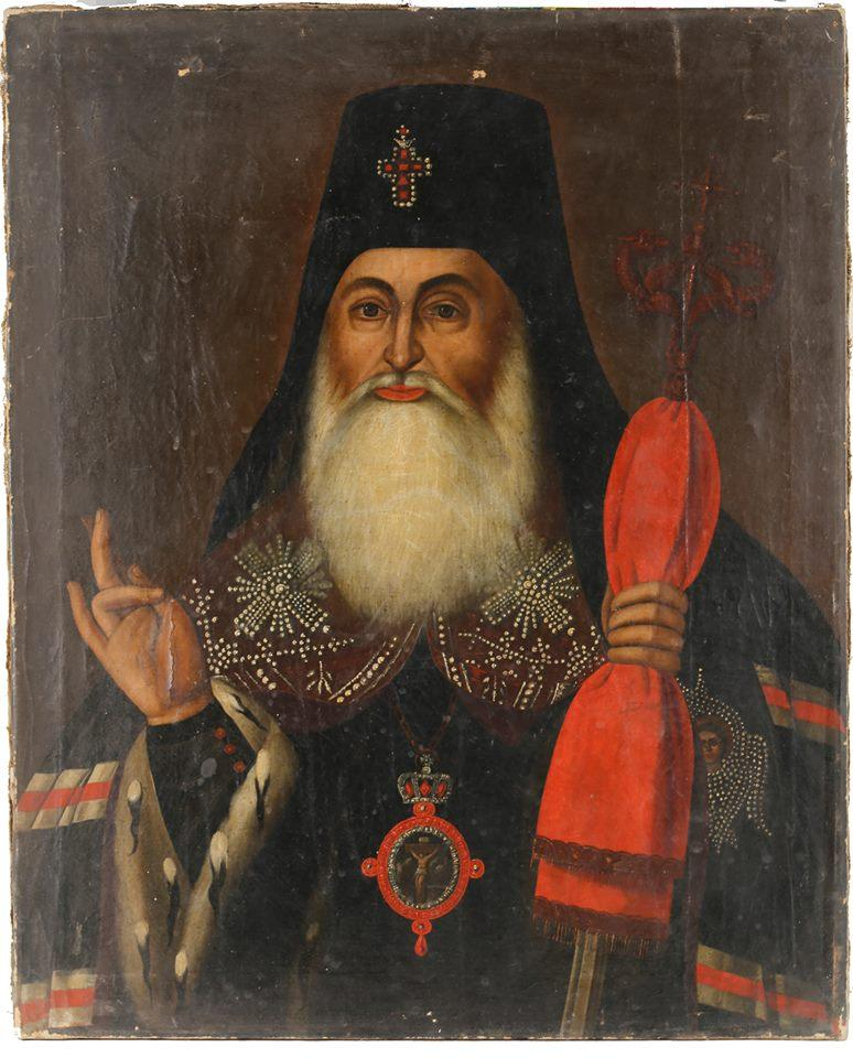 Portrait of His Holiness Patriarch of Georgia and Catholicos of Upper Iveria (Eastern Georgia) - Anton I Bagrationi. oil on canvas. 90 × 73 cm.